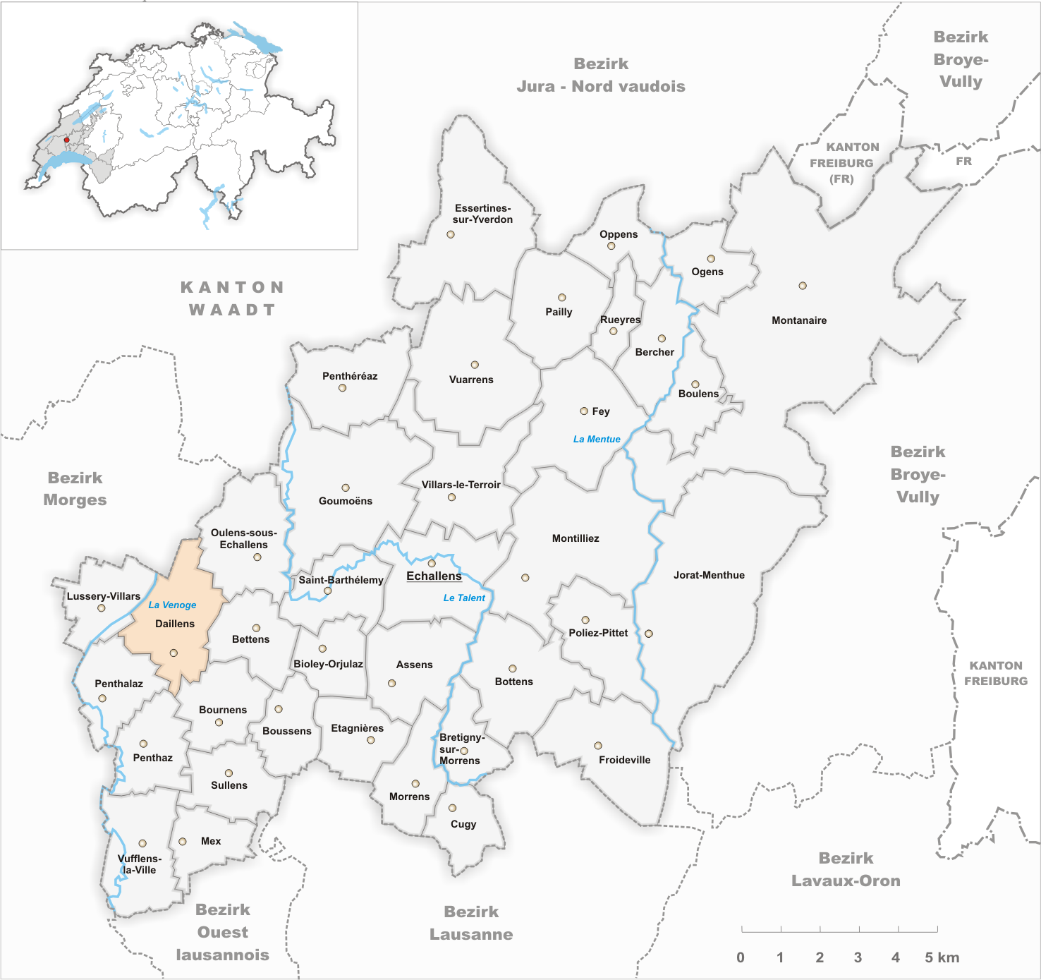 Municipality Daillens